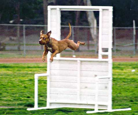 K9 Pro Sports competitor "Bomber" clears and obstacle in a trial